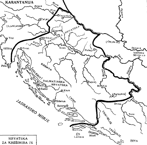 Map of the Kingdom of Croatia during the reign of king Peter Cresimir IV taken from the book: (Author Pečjak Rudolf, 1938): Zgodovina za drugi razred meščanskih šol (History for schools, second class) , published in Ljubljana, Yugoslavia, by Jugoslovanska tiskarna (map VI.)